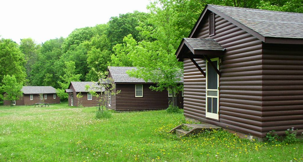 WPA barracks reused as Camp New Ulm for German prisoners of war during World War II, now the group camp in Flandrau State Park, Minnesota, USA